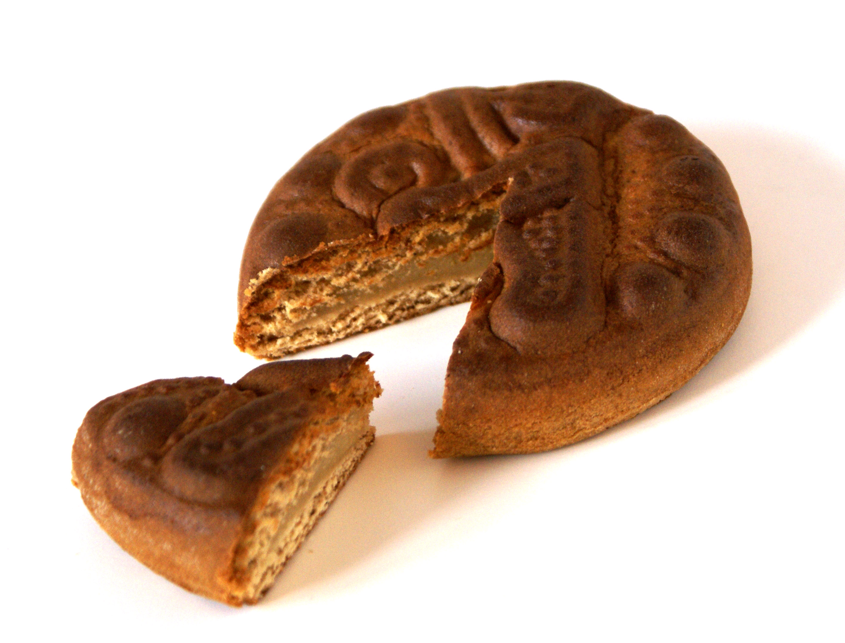 Appenzeller Biberli, a traditional sweet from the cantons of Appenzell, Switzerland.